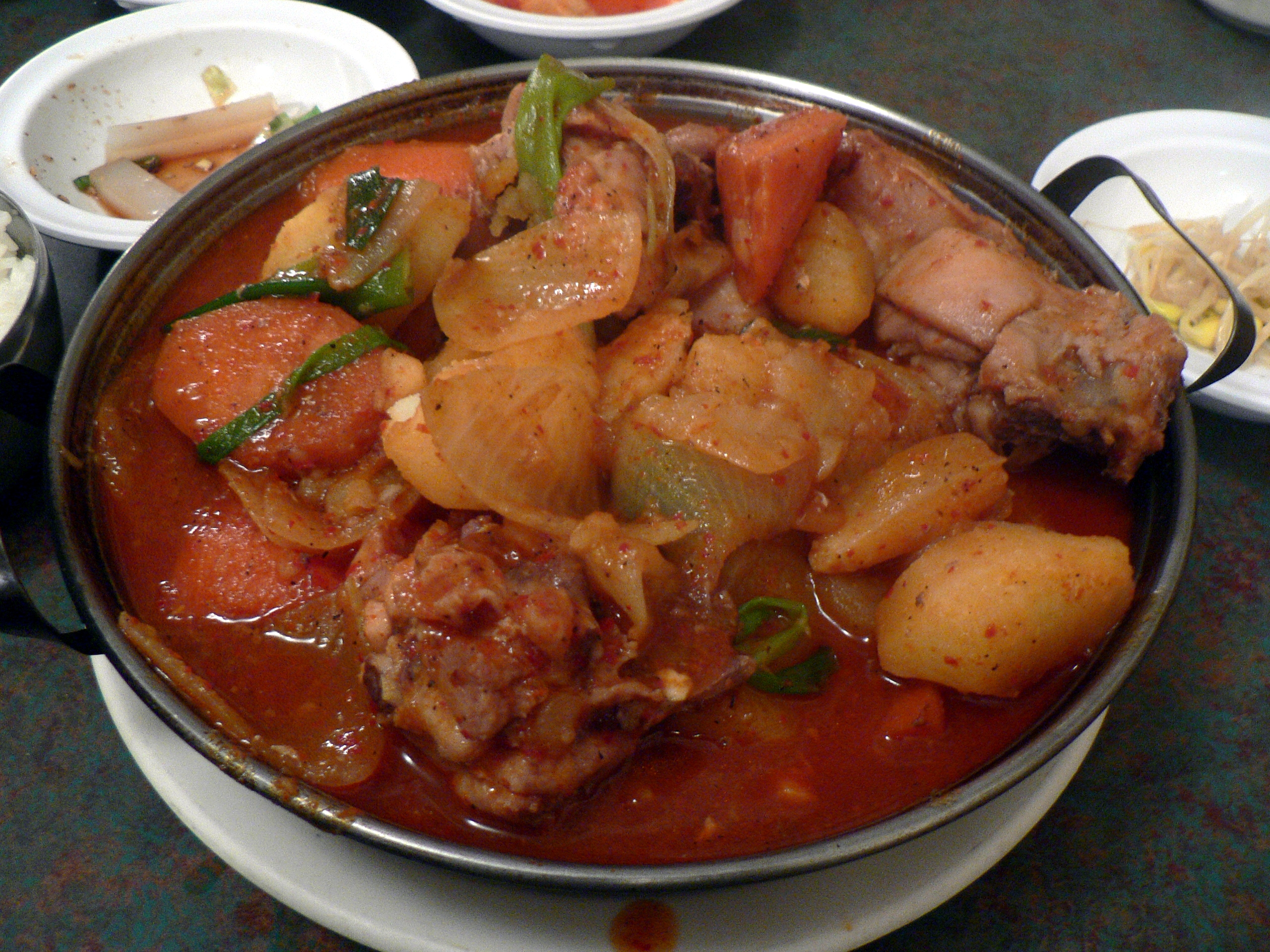 닭볶음탕 Dakbokemtang, a kind of Korean chicken stew with vegetables, especially potato.